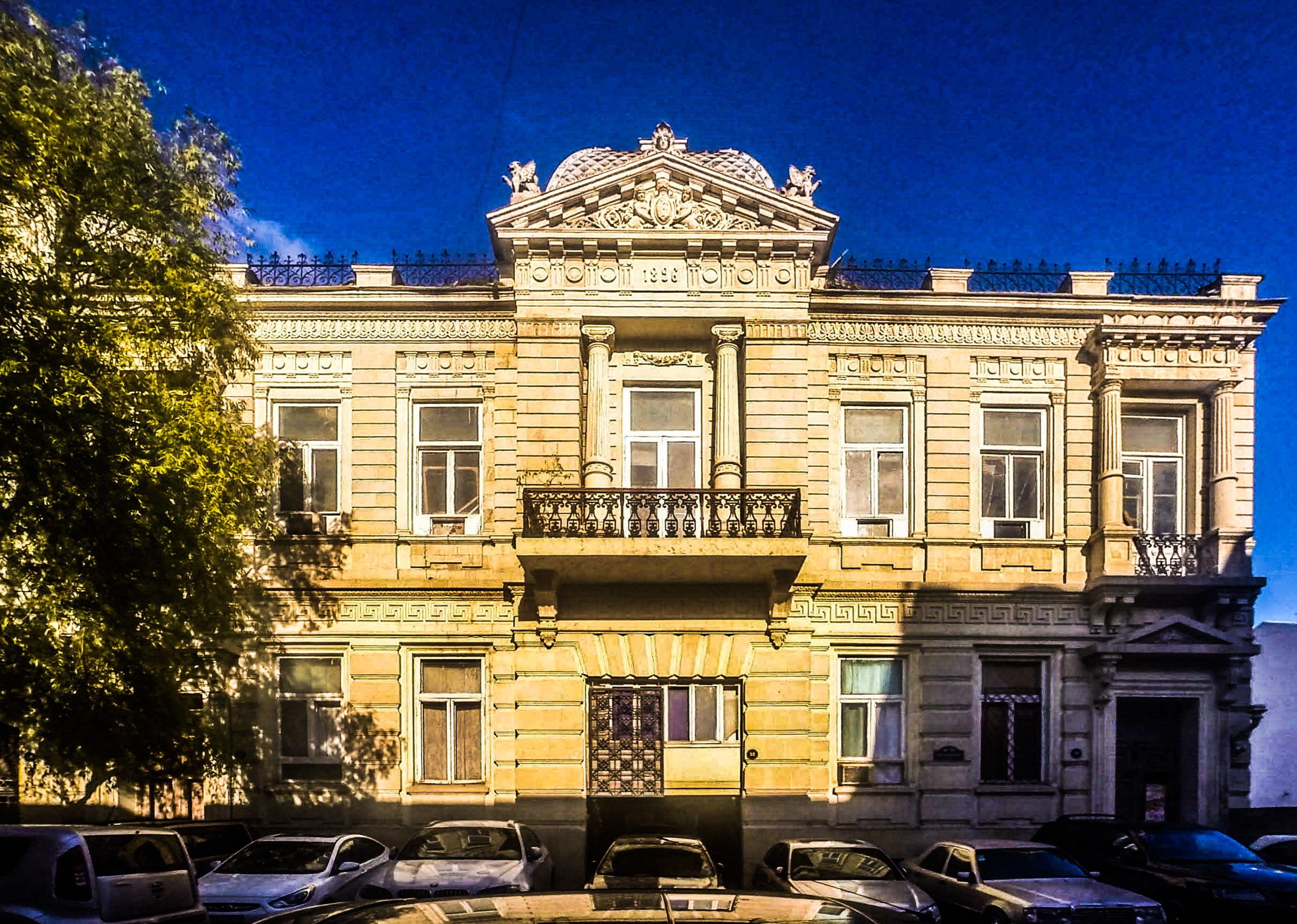 House with Griffins, Baku, 2015